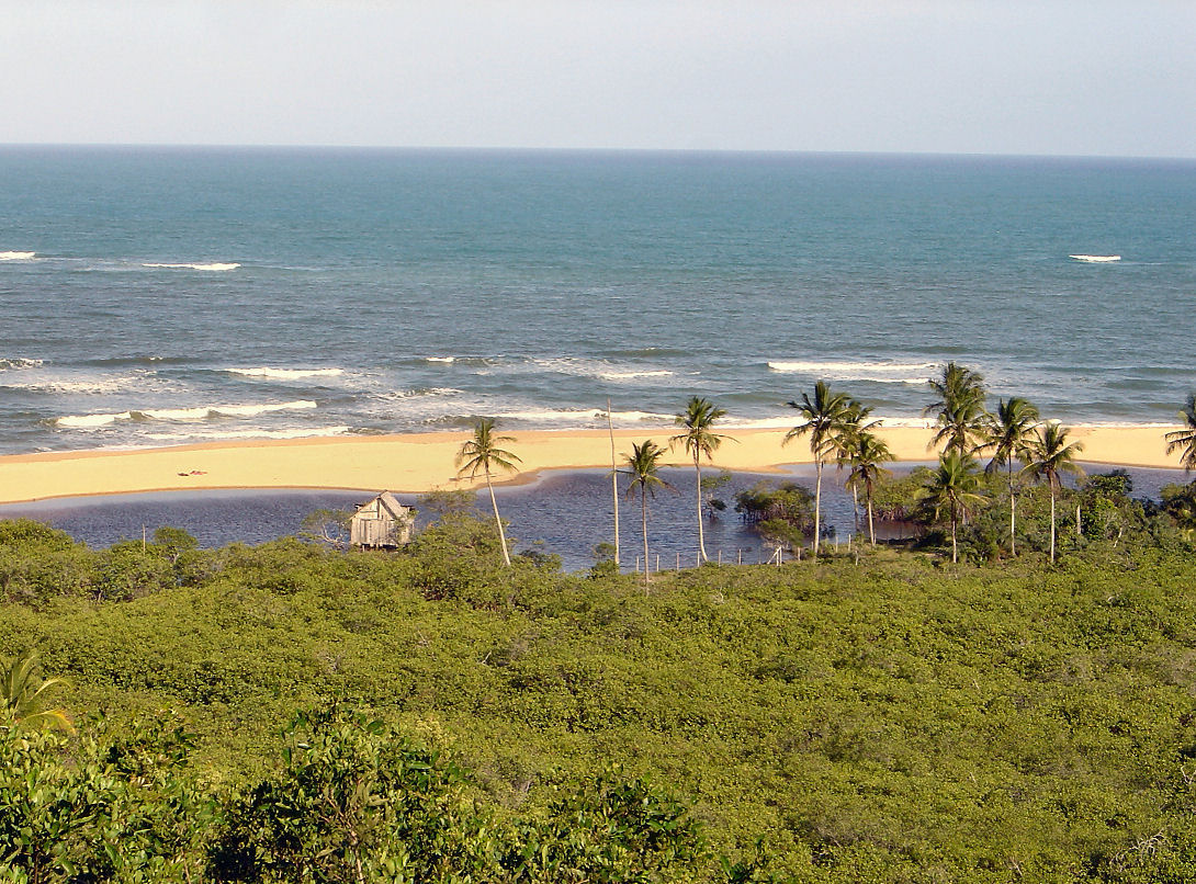 Trancoso - Porto Seguro - Bahia - Brazil, by Michel Y.G. Meunier